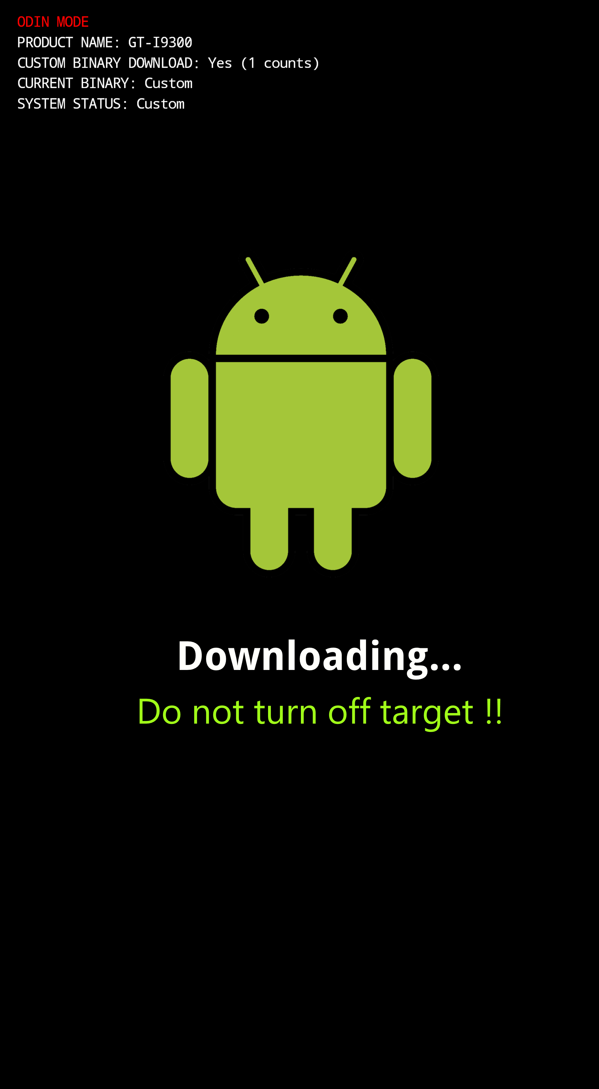 Samsung Galaxy S III in Odin mode